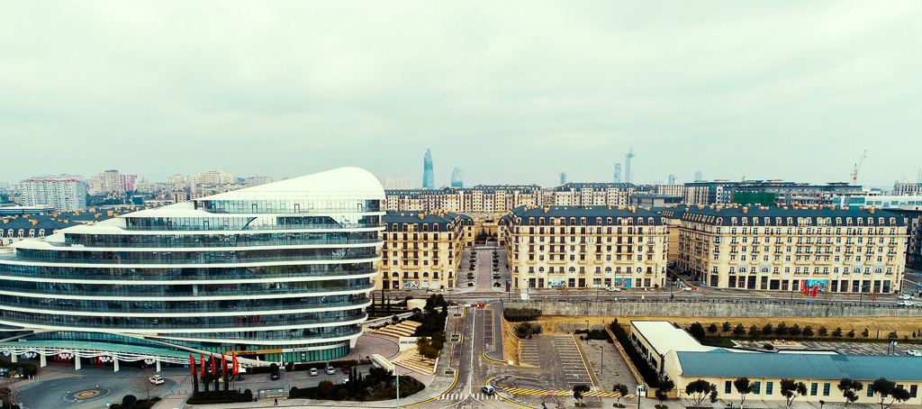 Baku White City under construction